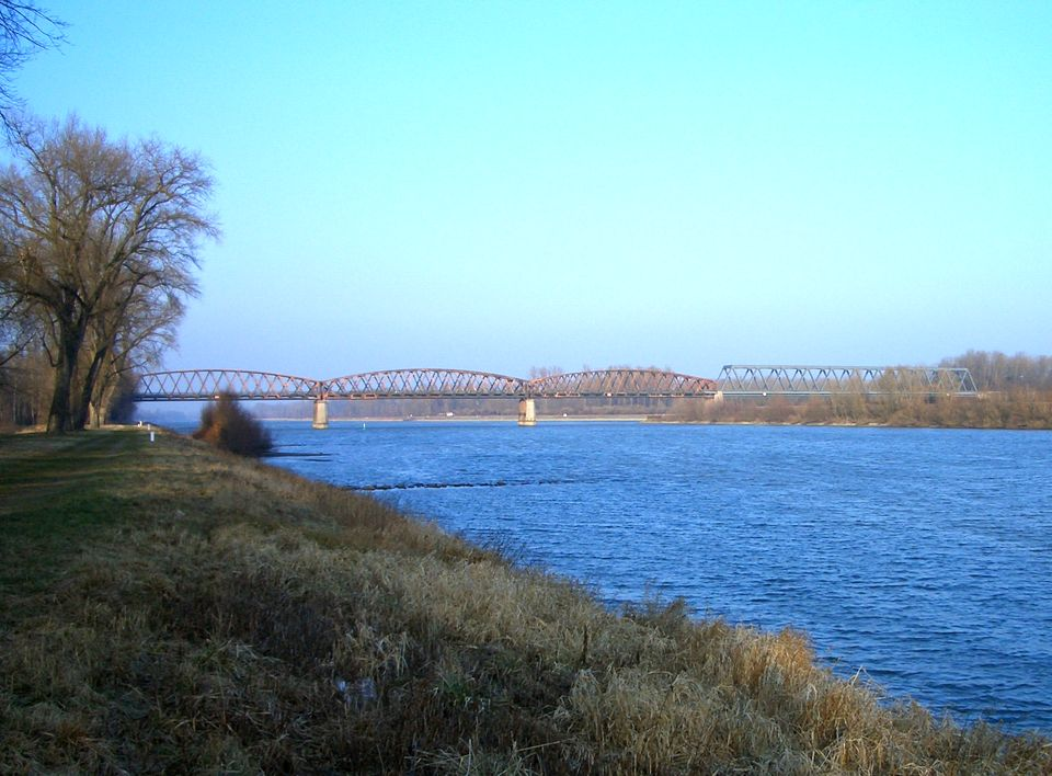 Bridge over River Rhine between Beinheim and Wintersdorf